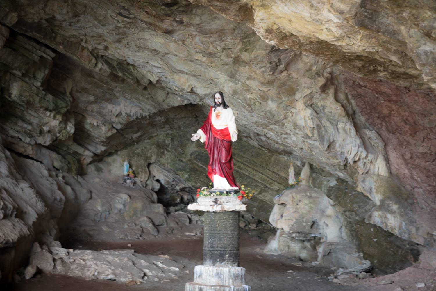 Statue of Didimera cave